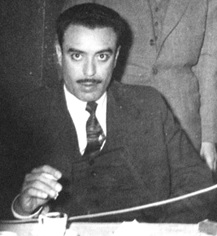 Cropped image of Ali Abu Nuwar during a press conference in Damascus following his escape to the United Arab Republic from Jordan.